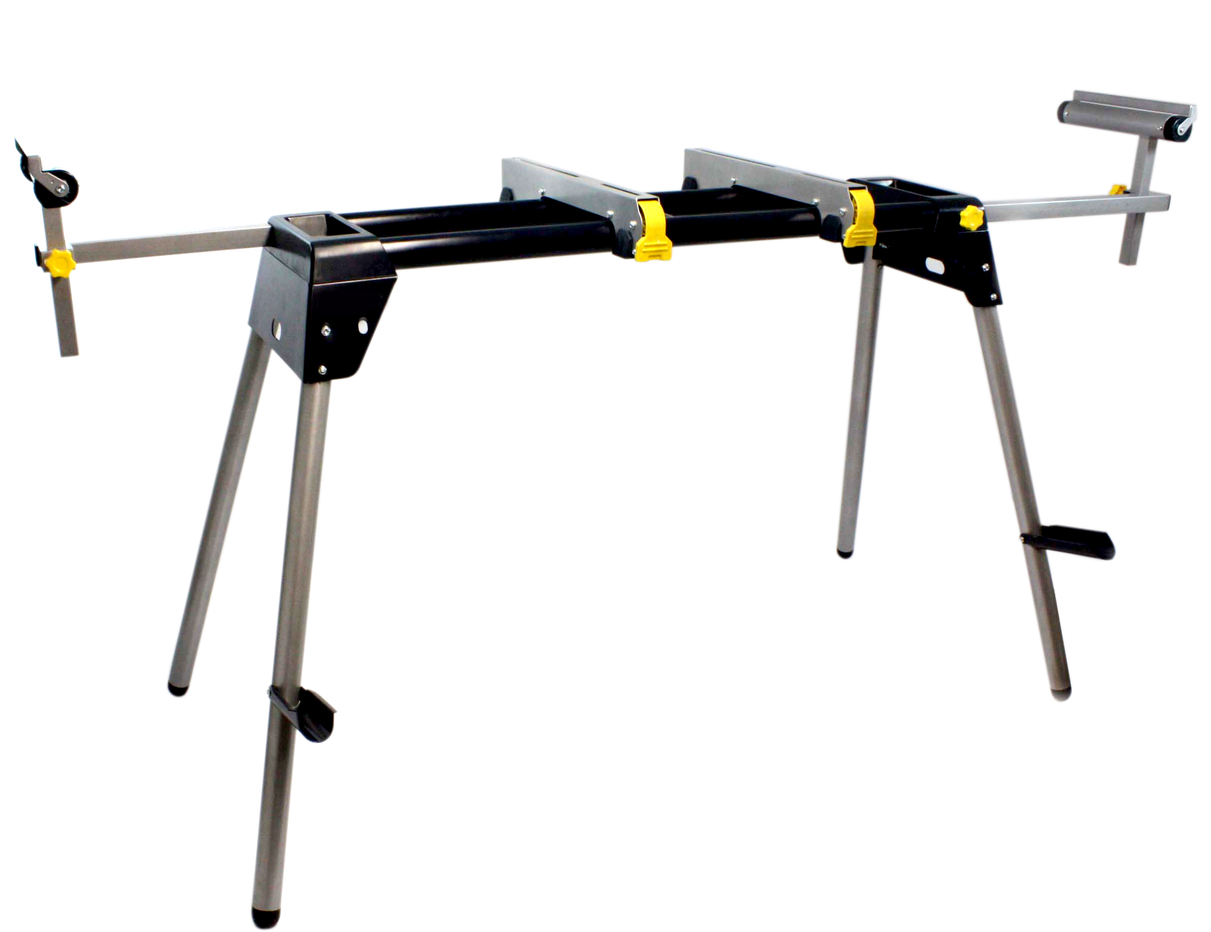 Maxtech's Folding Mitre Saw Stand, available under private label in 2011